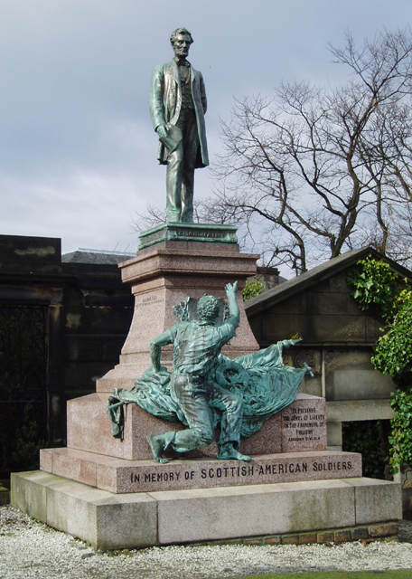 The Emancipation Monument, Edinburgh. This famous monument to Scots who died fighting in the Union Army during the American Civil War lies within the Old Calton Burial Ground where the Philosopher David Hume, the Publisher Archibald Constable and the Sculptor Sir John Steell are all buried. The monument was unveiled in 1893 and the bronze lifesize statue of Abraham Lincoln was created by the well known American Sculptor George E. Bissell and is the only American Civil War Memorial outside the United States of America, the statue was also the first lifesized statue of an American President unveiled in Europe. To read more about this memorial please follow this Weblink.